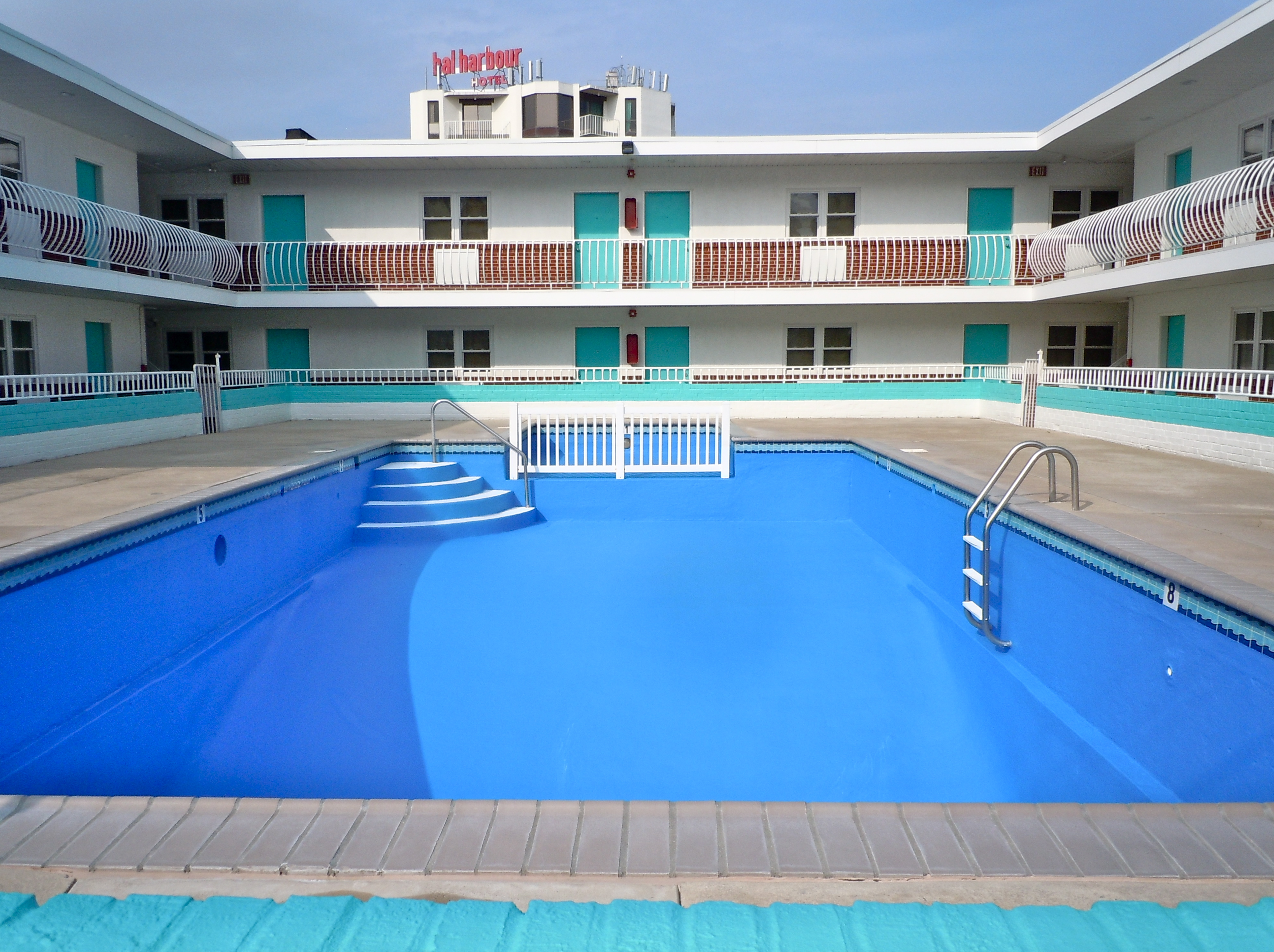 Mark 1 Motel in Wildwood Crest, New Jersey, 417 E Atlanta Avenue. Built 1960 Part of the Wildwoods Shore Resort Historic District an official New Jersey Historic District